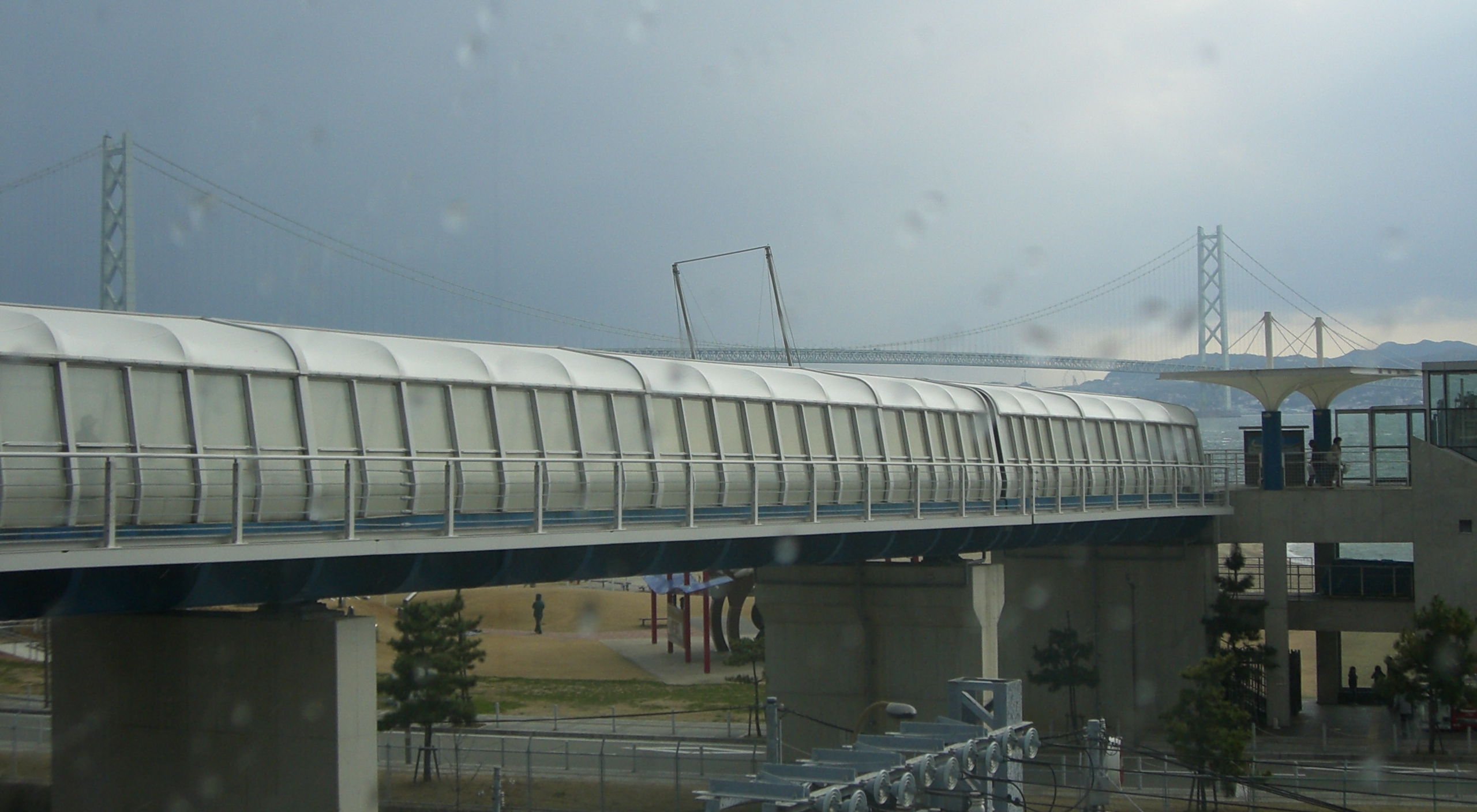 JR West Asagiri Station